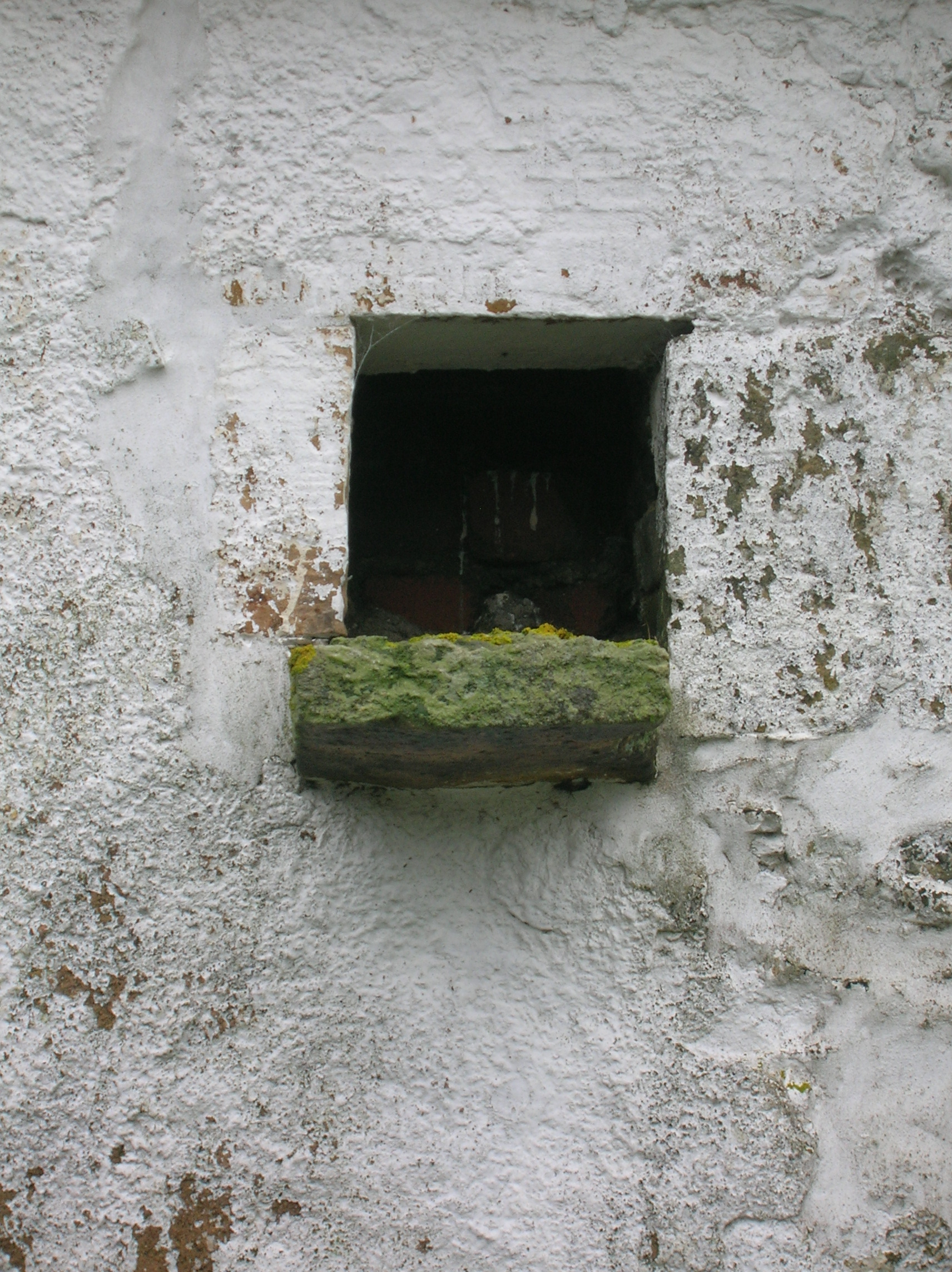 An Owl Hole, Lugtonridge Farm, Beith, Scotland. Incorporated into buildings to encourage Owls to control vermin